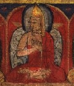 Draktengpa Yonten Tsultrim, 11th Century Kadam monk